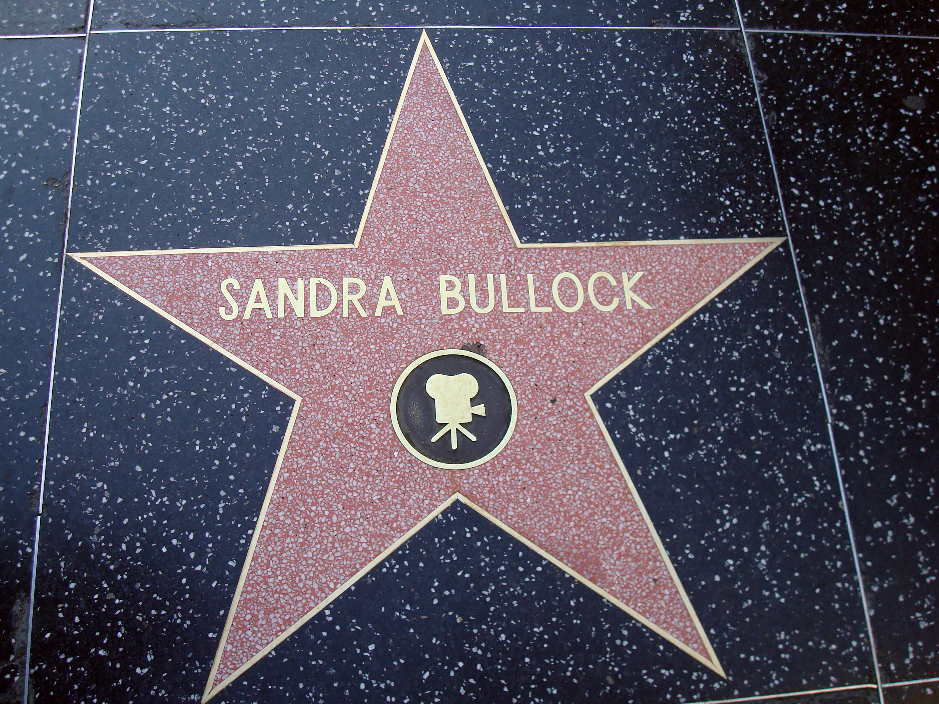 Sandra Bullocks Star on the Hollywood Walk of Fame